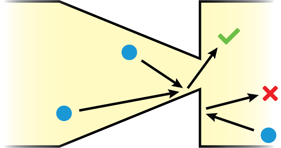 Simple scheme for a geometric didoes showing blue particles making it through a funnel shape from left to right, but being blocked when trying to go from right to left.